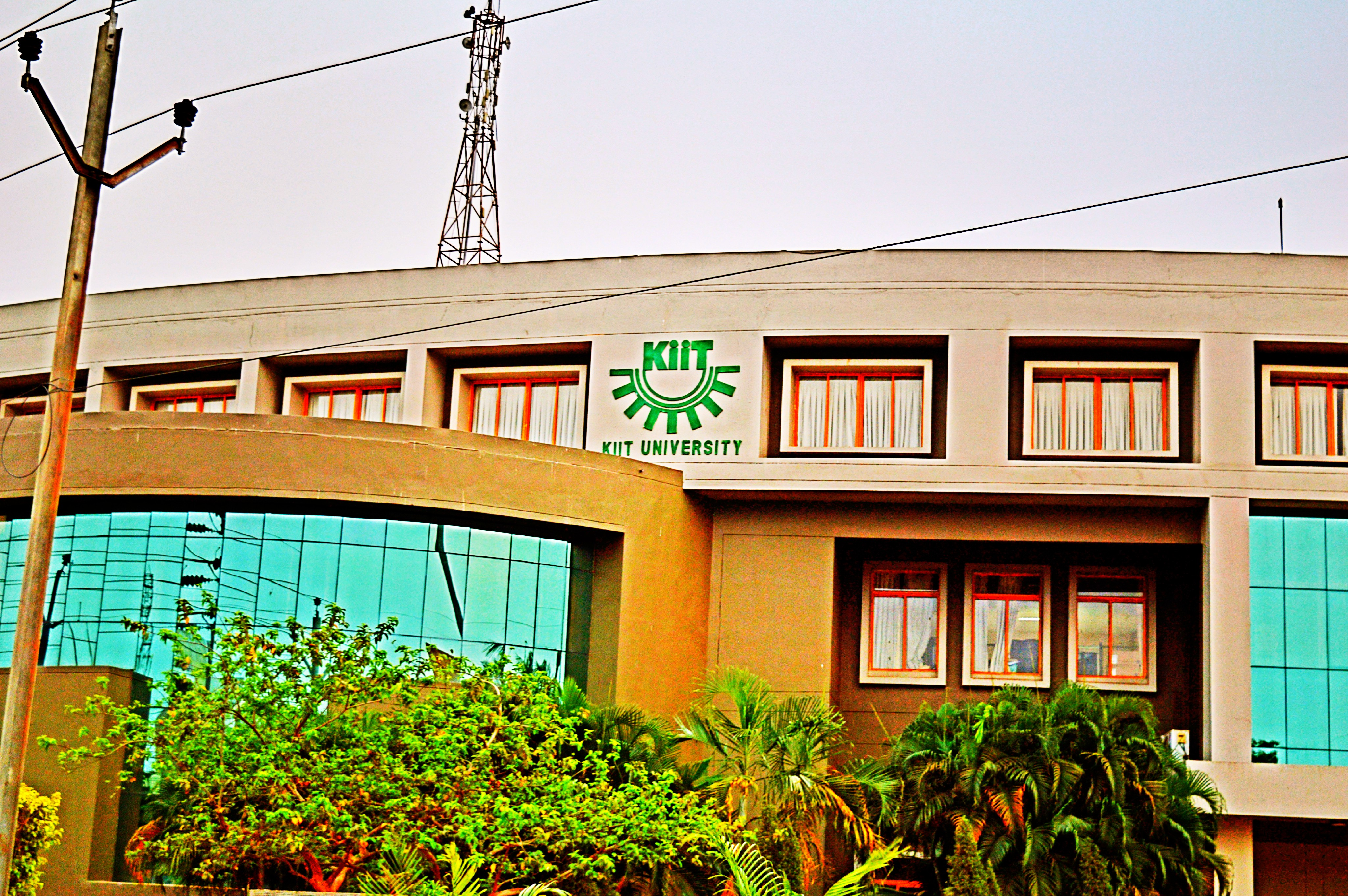 Kiit central library building.